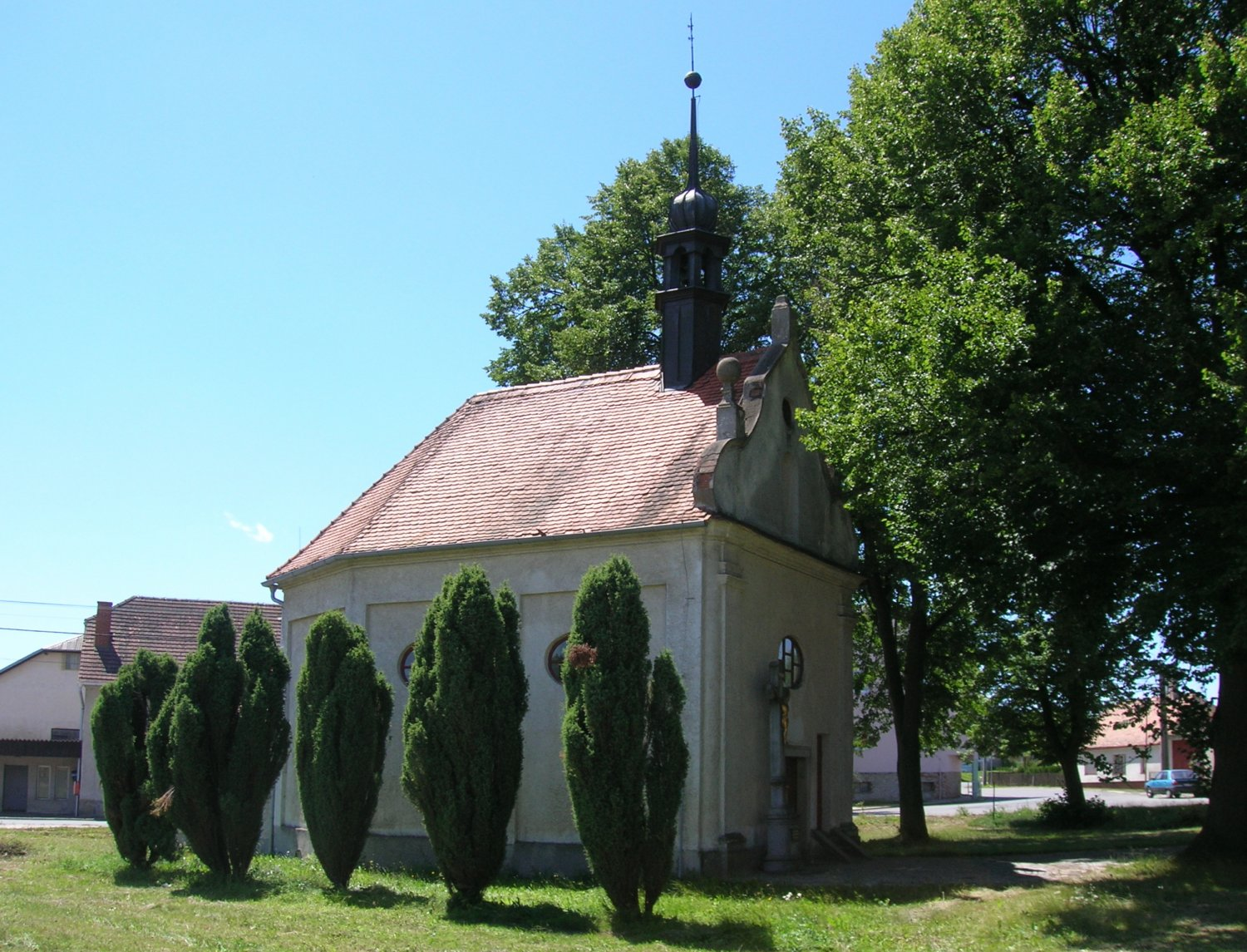 Třebíč-Slavice. St. Jan Nepomucký church